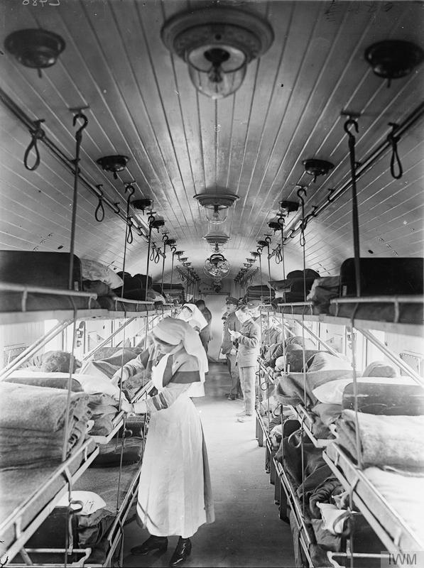 The German Spring Offensive, March-july 1918 Nurses looking after British and French wounded on a RAMC ambulance train near Doullens, 27 April 1918. They are members of either the Queen Alexandra's Imperial Military Nursing Service Reserve or the Territorial Force Nursing Service.